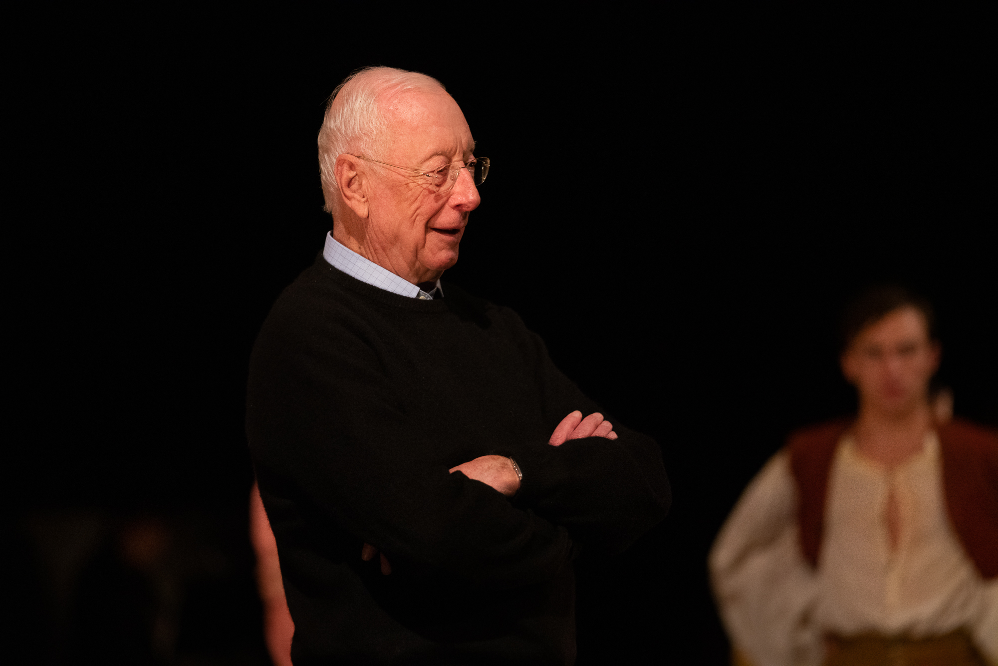 Brooklyn Academy of Music, Brooklyn, NY Photo by Steven Pisano